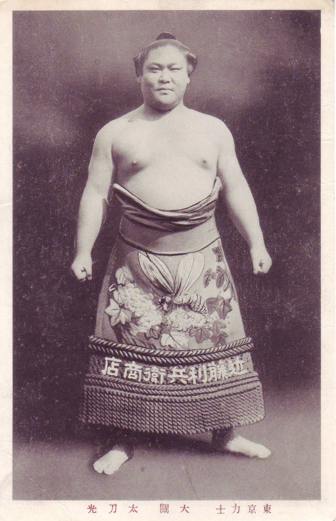 Postcard of Tachihikari Den'emon (sumo wrestler. Ozeki).